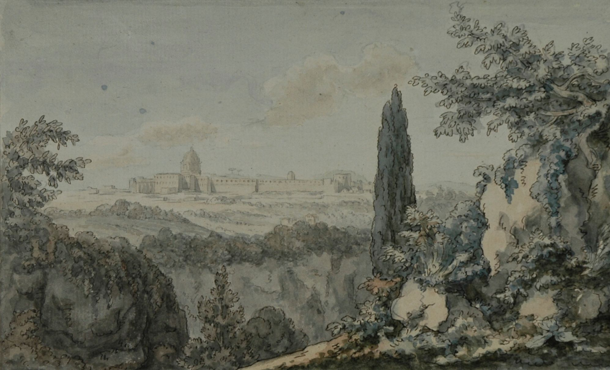 Watercolour by Johann Wolfgang von Goethe: St. Peter's Basilica in Rome seen from the Arco Oscuro, a doorway near the Villa Giulia (